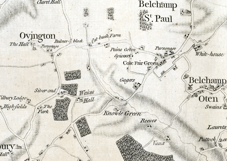 1777 Chapman and André map of Knowl Green in Braintree, Essex, England.